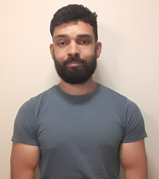 Dr. Nicholas Weise, picture taken by Dukula De Alwis Jayasinghe (Chemistry PASS Team at University of Manchester)